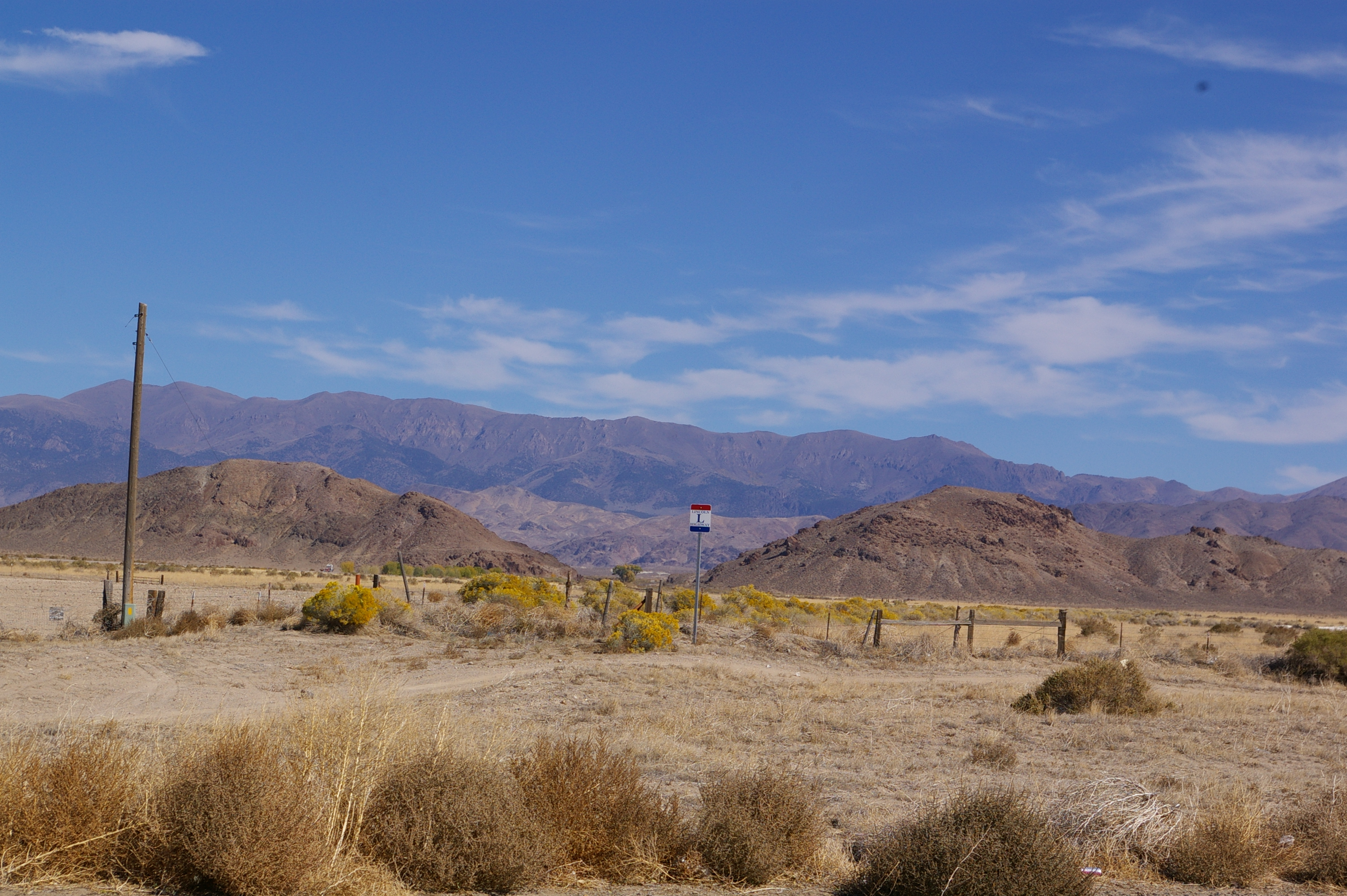 Lincoln Highway at Middlegate, Nevada